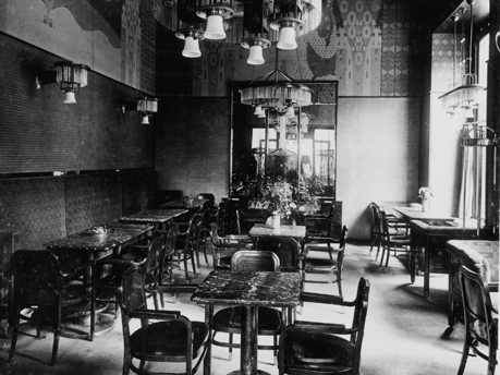 Interior of Café Arco in Prague, 1907